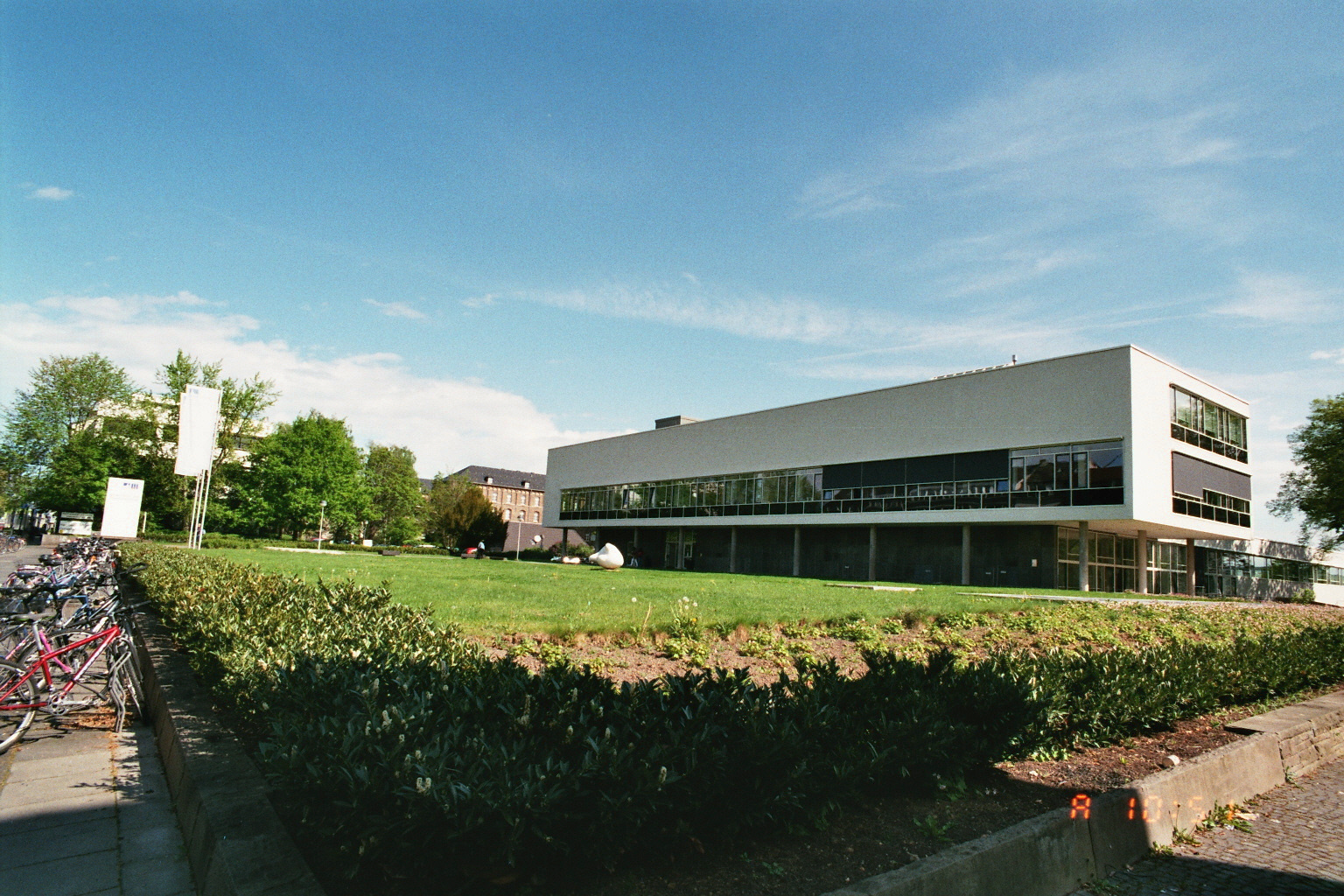 ULB Bonn, Germany